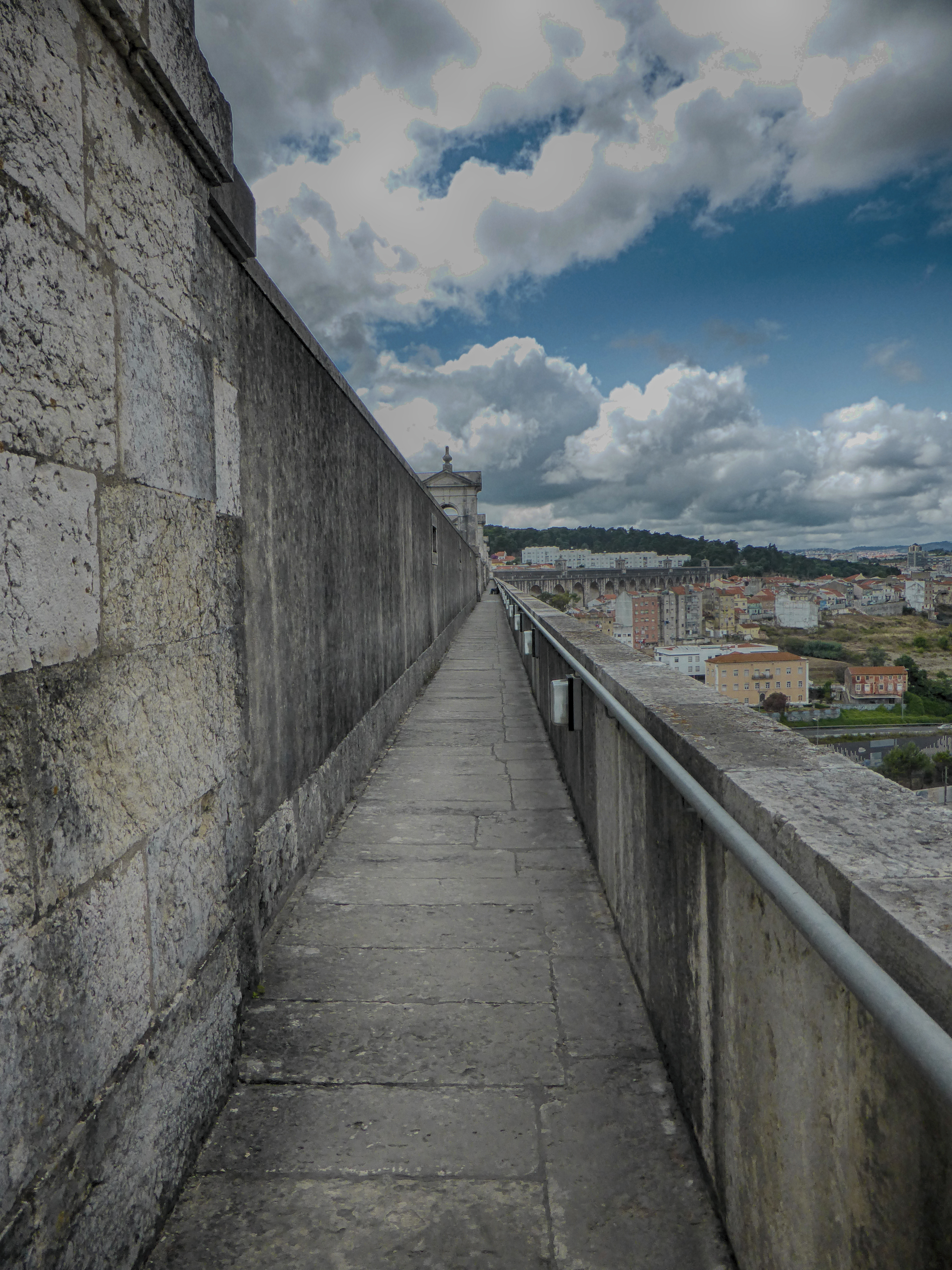 North sidewalk of Aguas Livres Aqueduct - Lisbon, Portugal